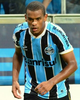 Fernando Lucas Martins